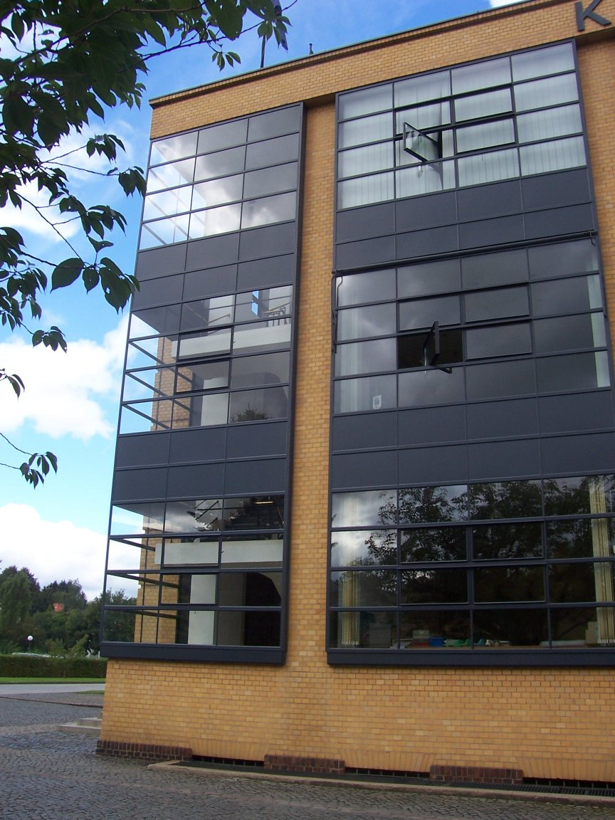 Fagus Factory Alfeld